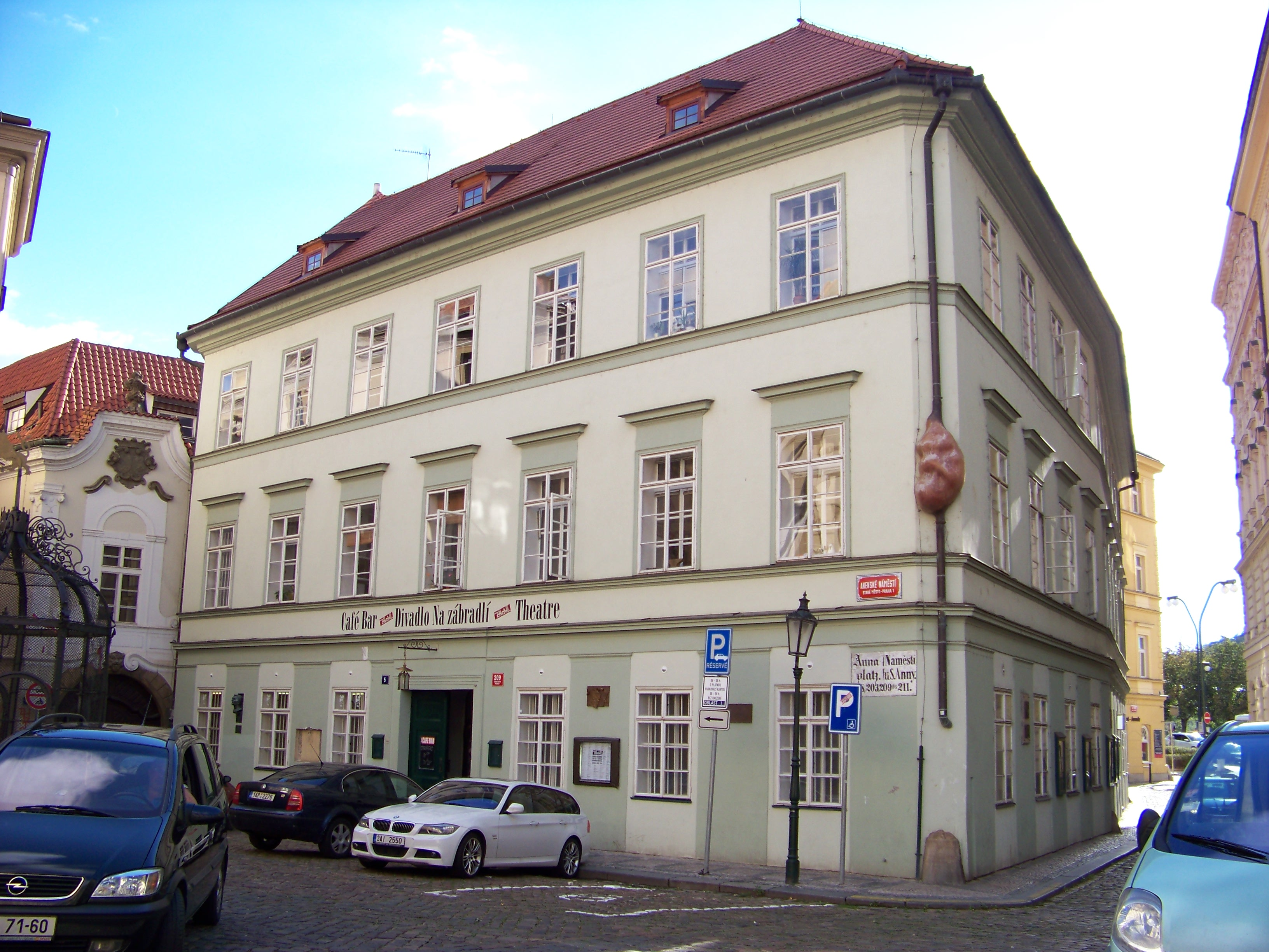 Prague-Old Town. Anenské náměstí 209/5, a theatre. - OpenStreetMap (Info)